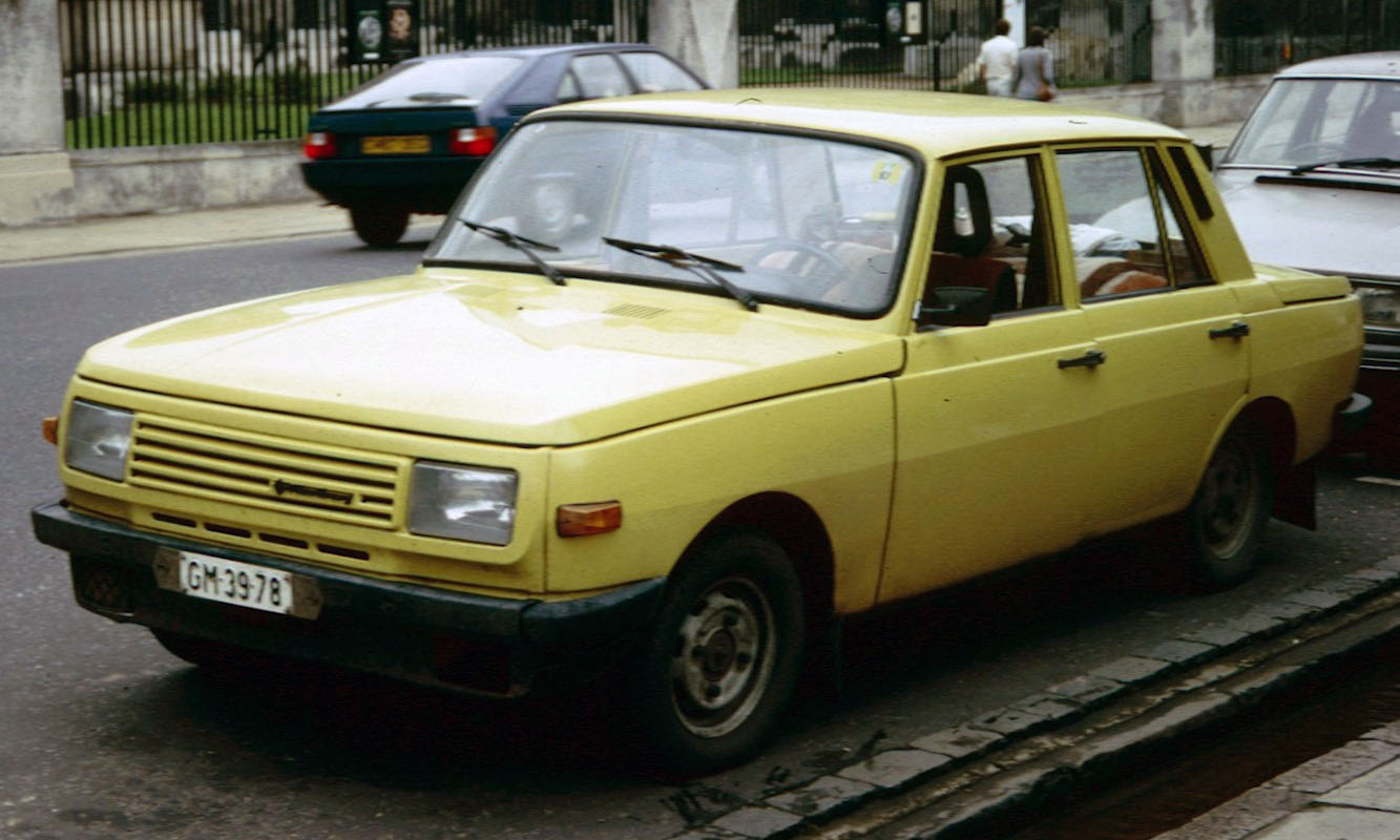 Wartburg 353S in Cambridge